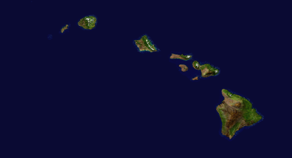 Satellite composition of the whole Earth's surface.